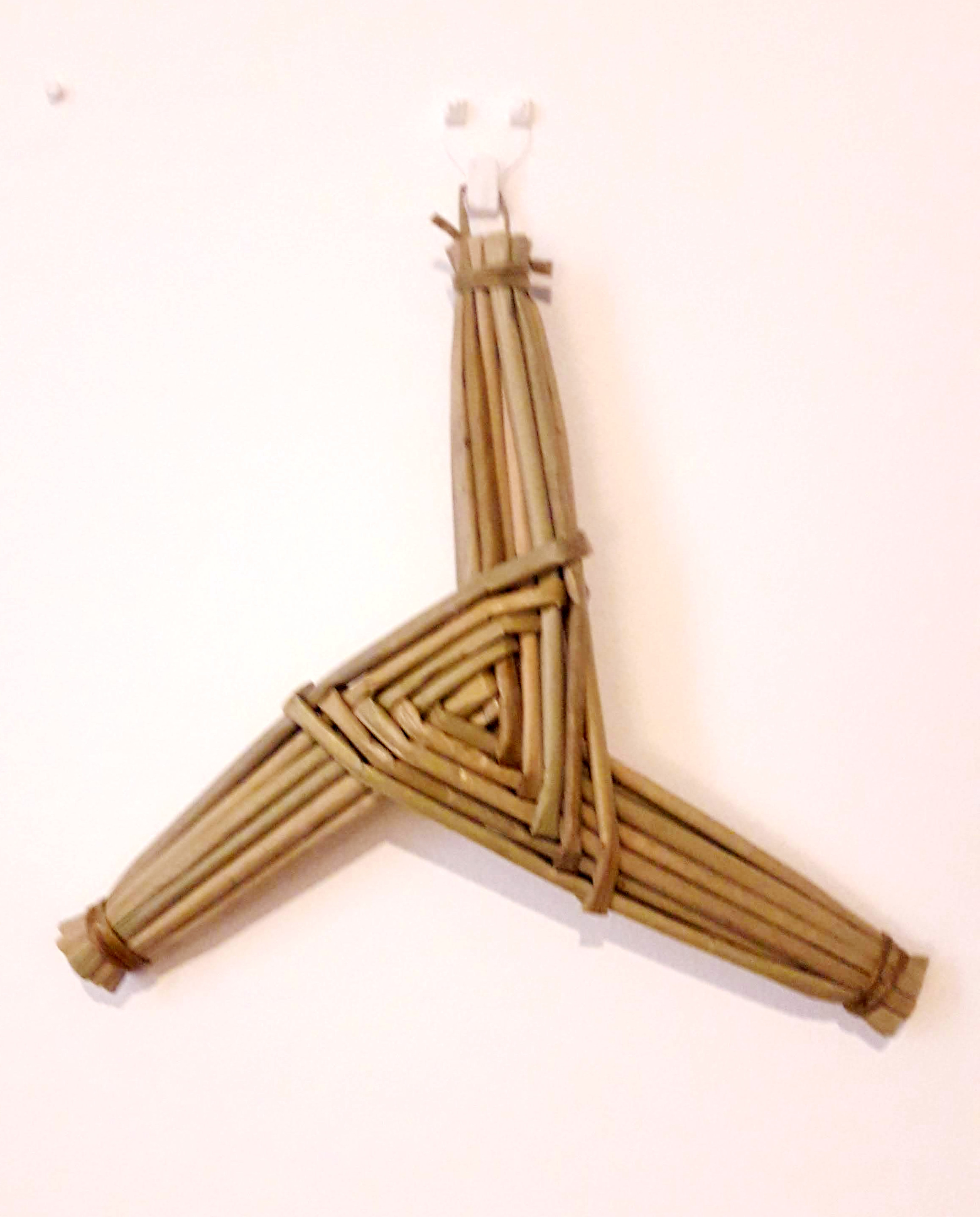 A three-armed Brigid's Cross, or Cross Bride